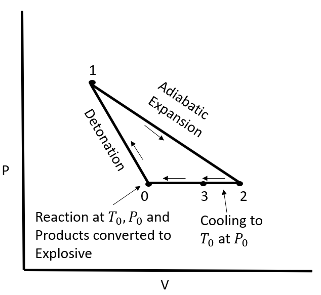 Schematic representation of Fickett Jacobs Thermodynamic Cycle